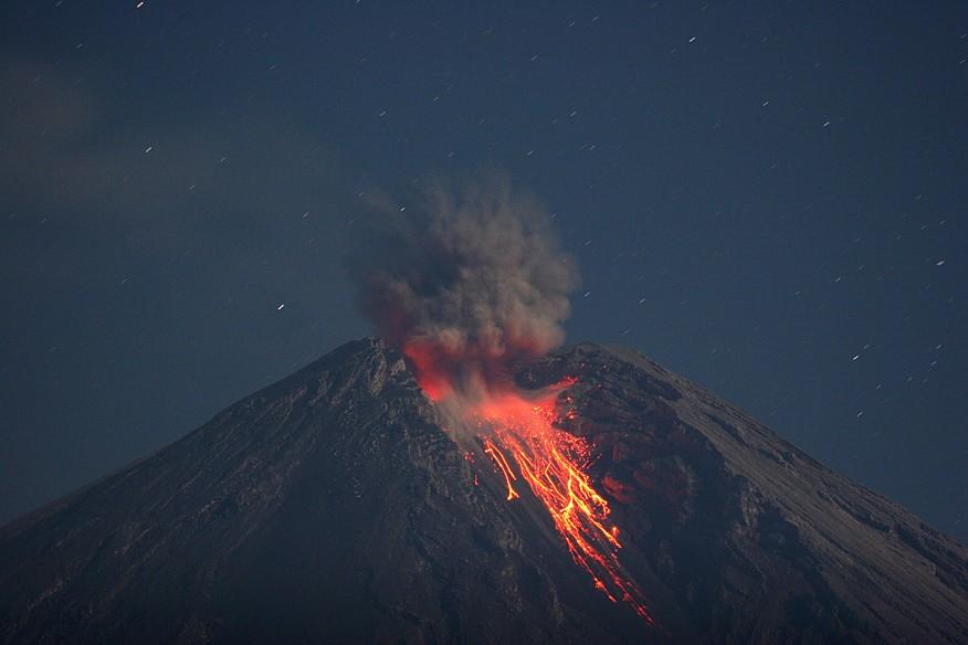 Volcano Semeru on Java, Indonesia